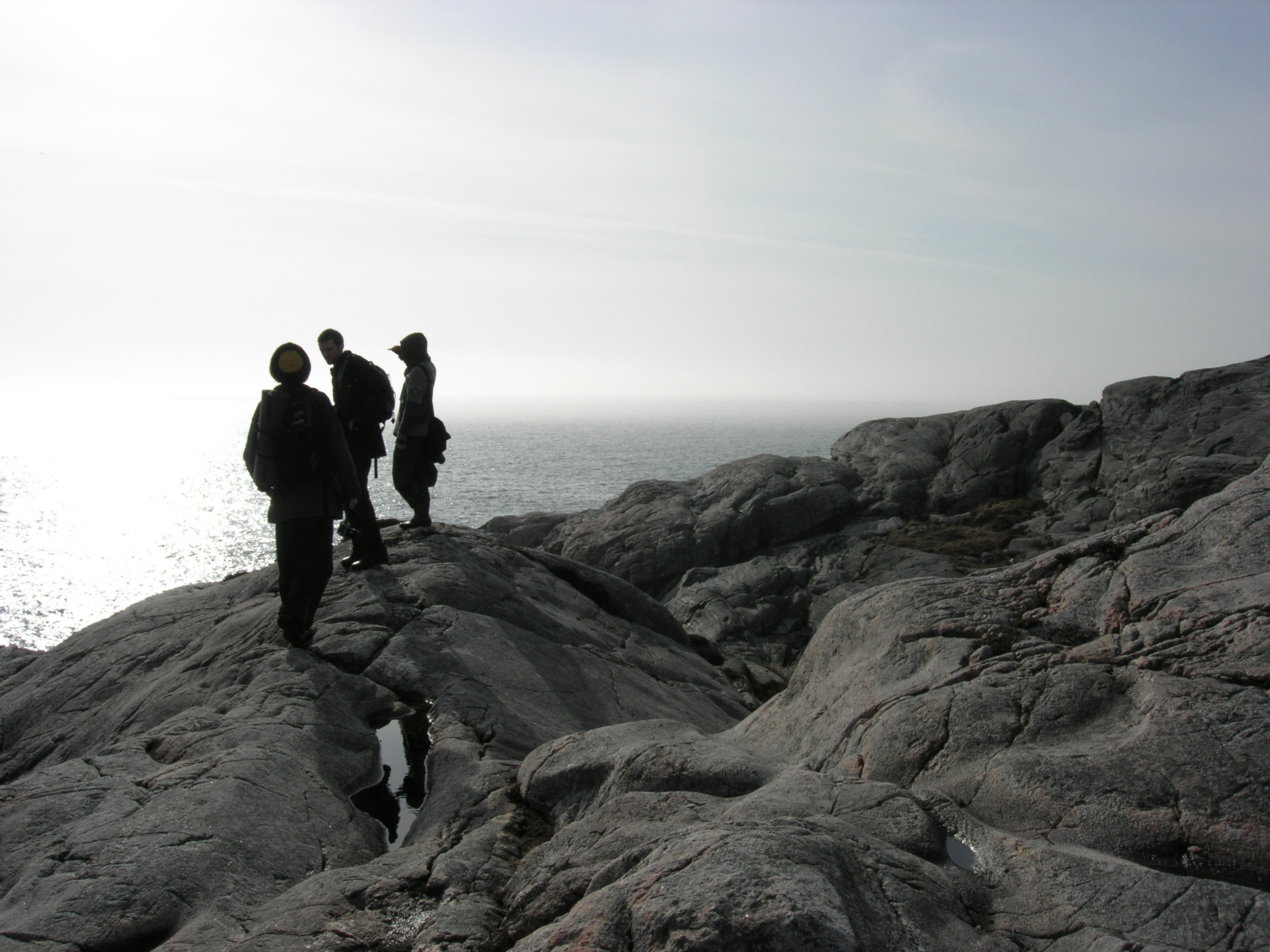 Easter in Sotra, Norway.